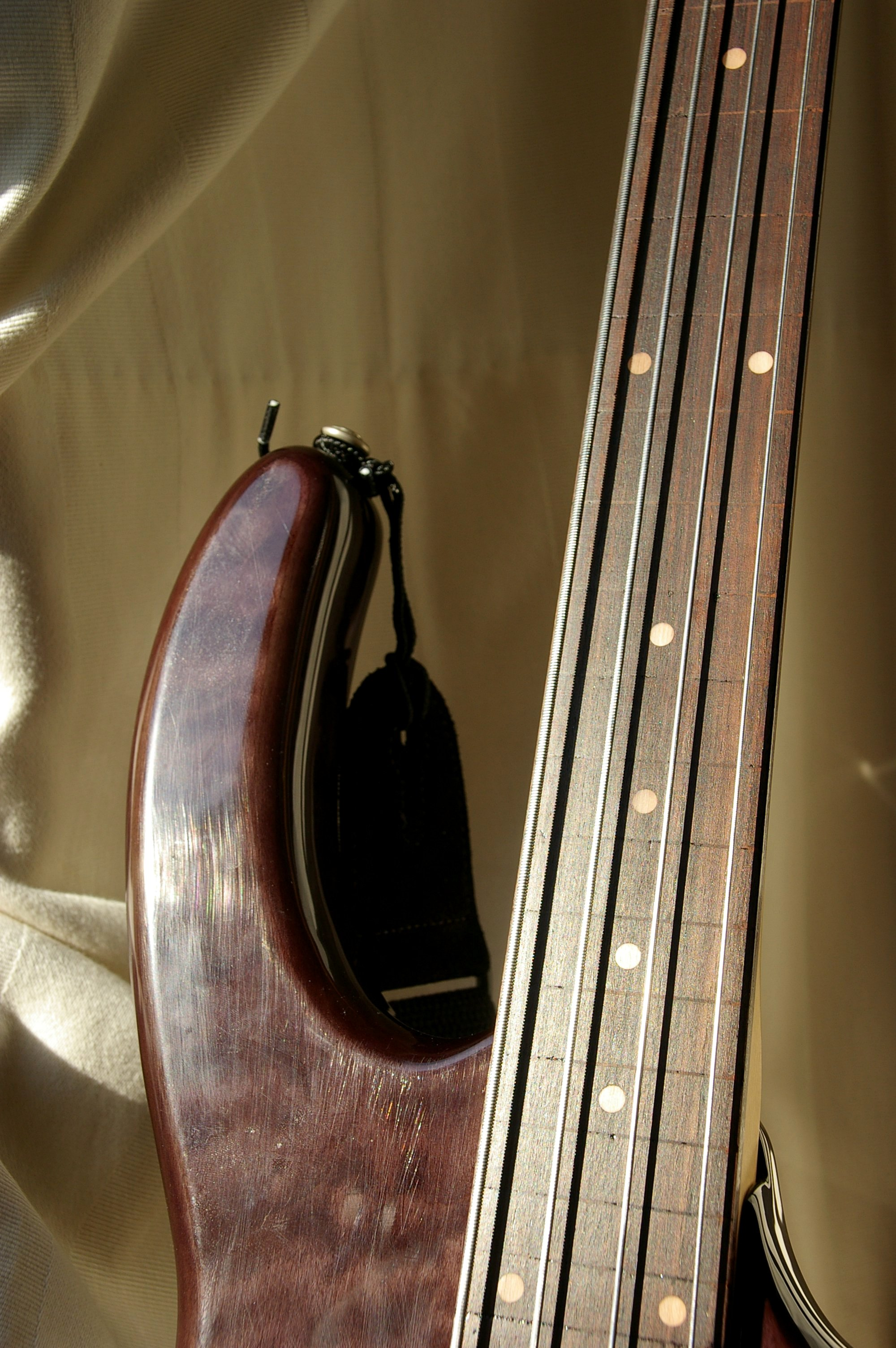 Fretless bass (home made).